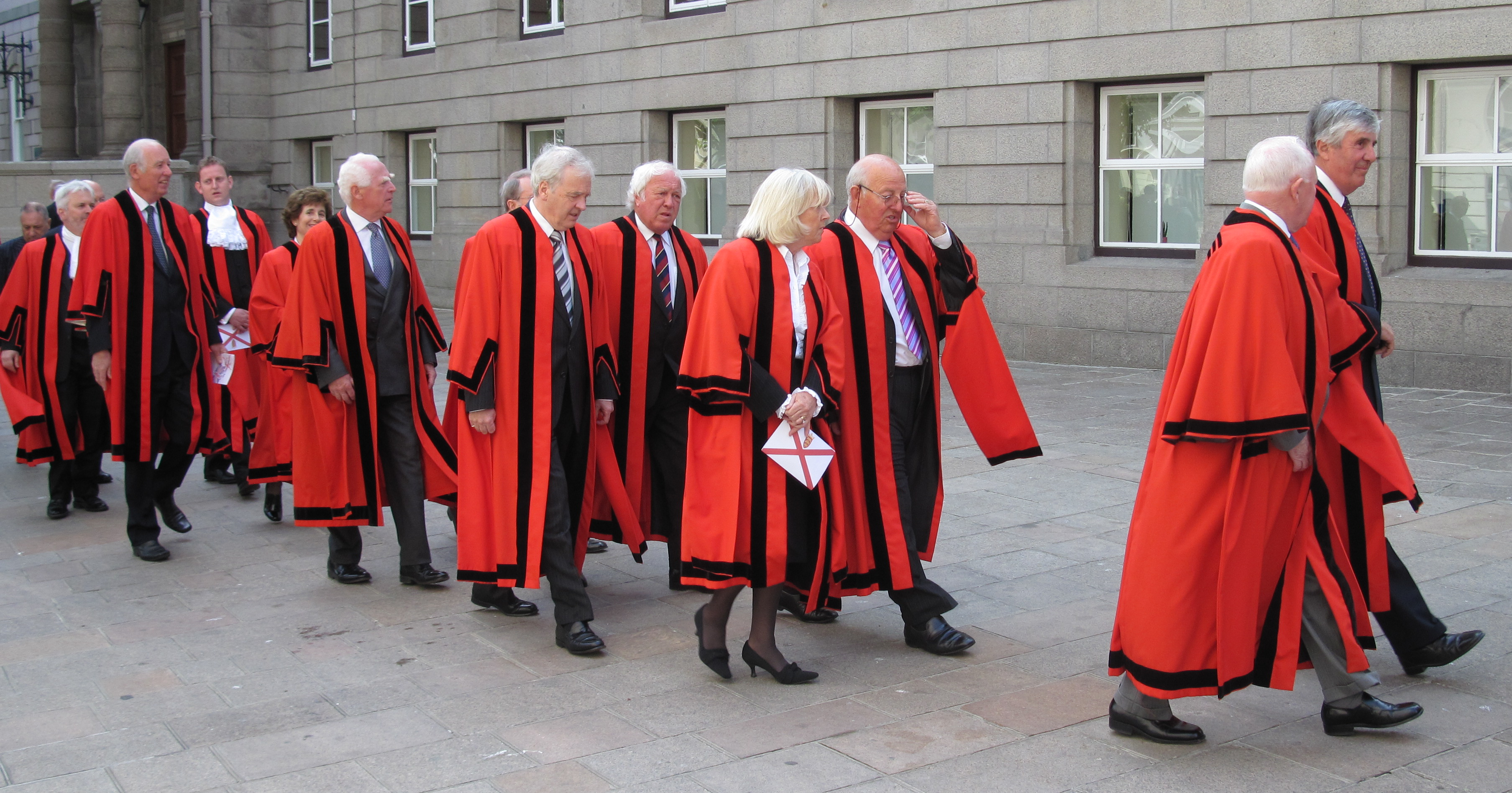 Liberation Day, 9 May 2010, Jersey